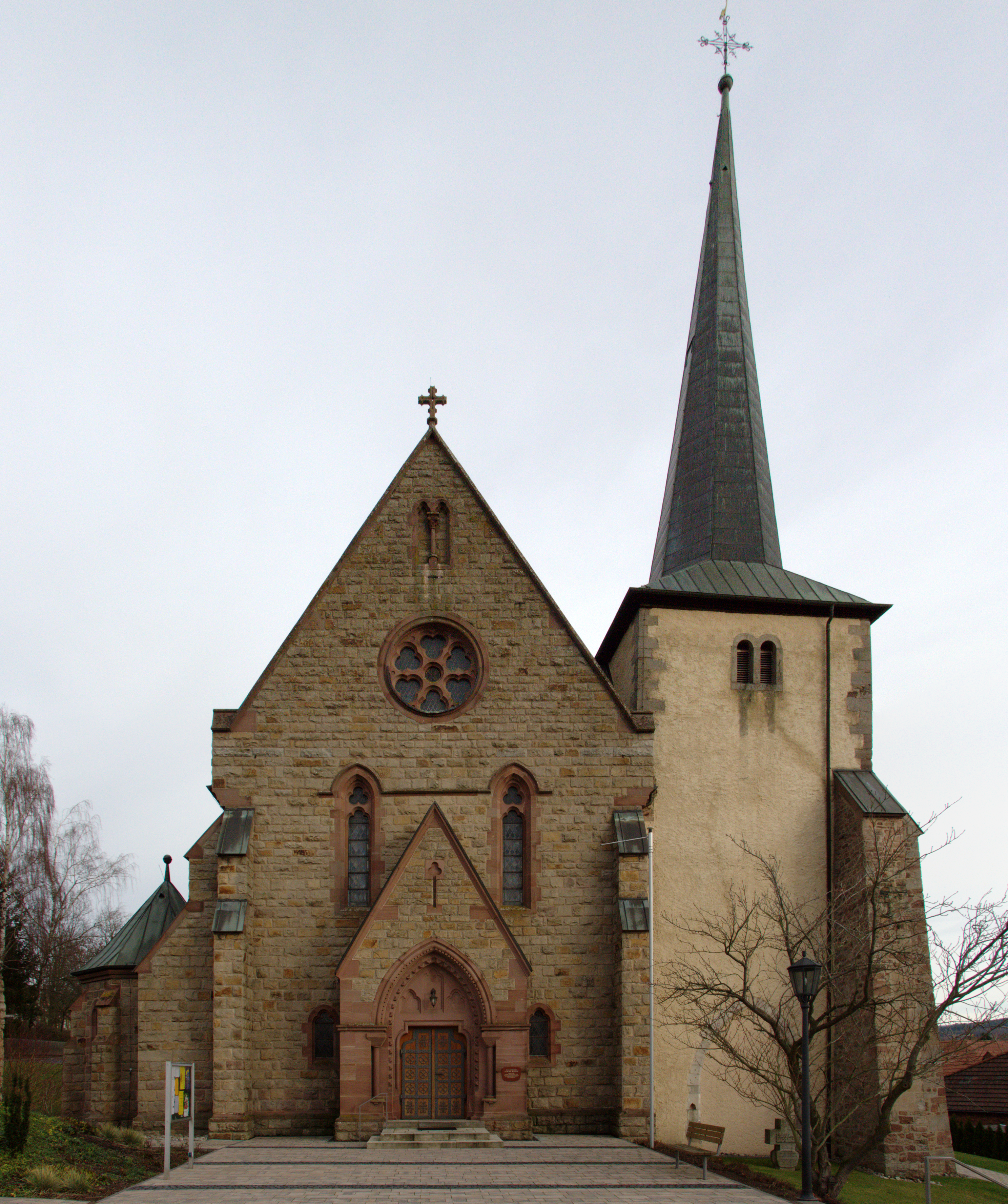 Catholic Church, Zum Heiligen Kreuz in Luetter Eichenzell , Hesse, Germany